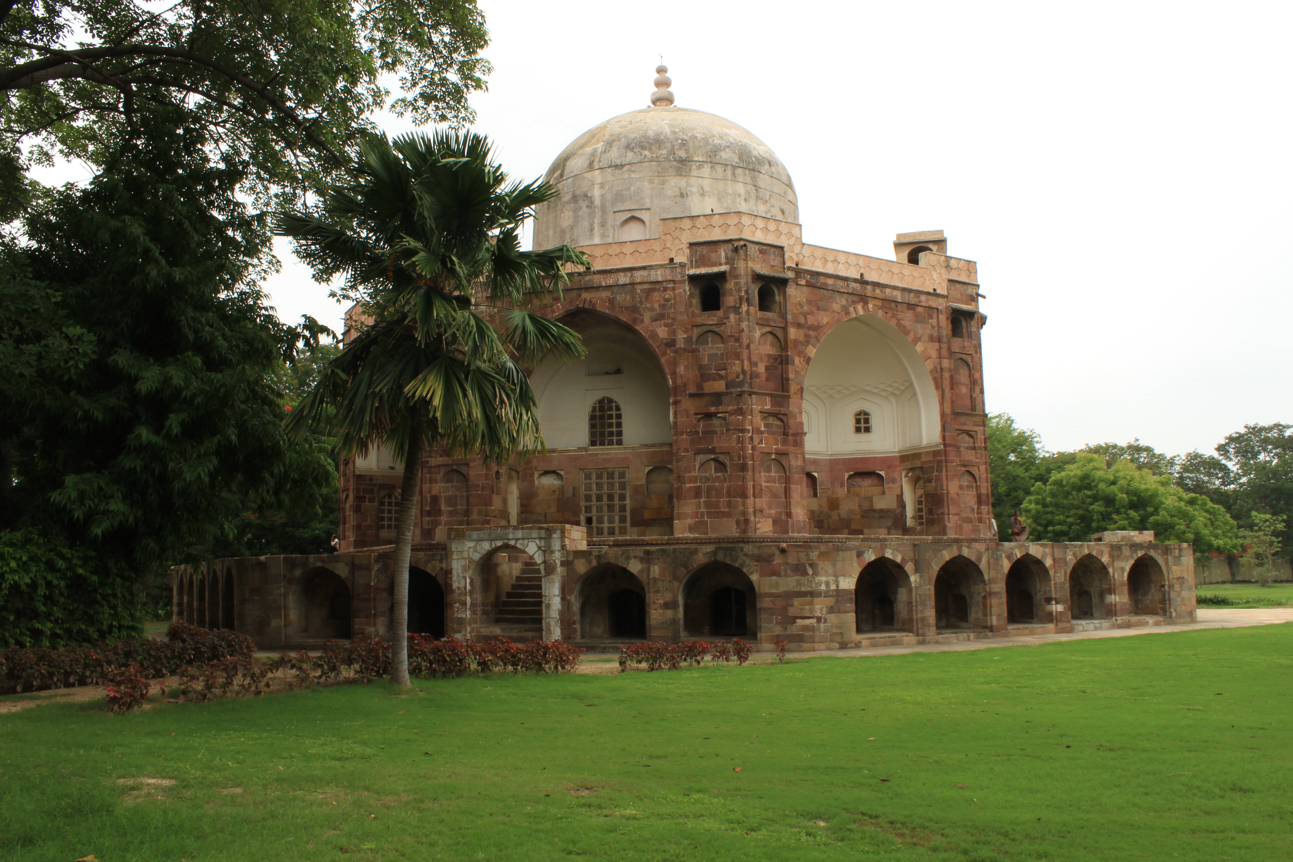 View of Hazira Maqbara from its right side.